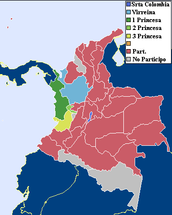 Miss Colombia 1993 Results